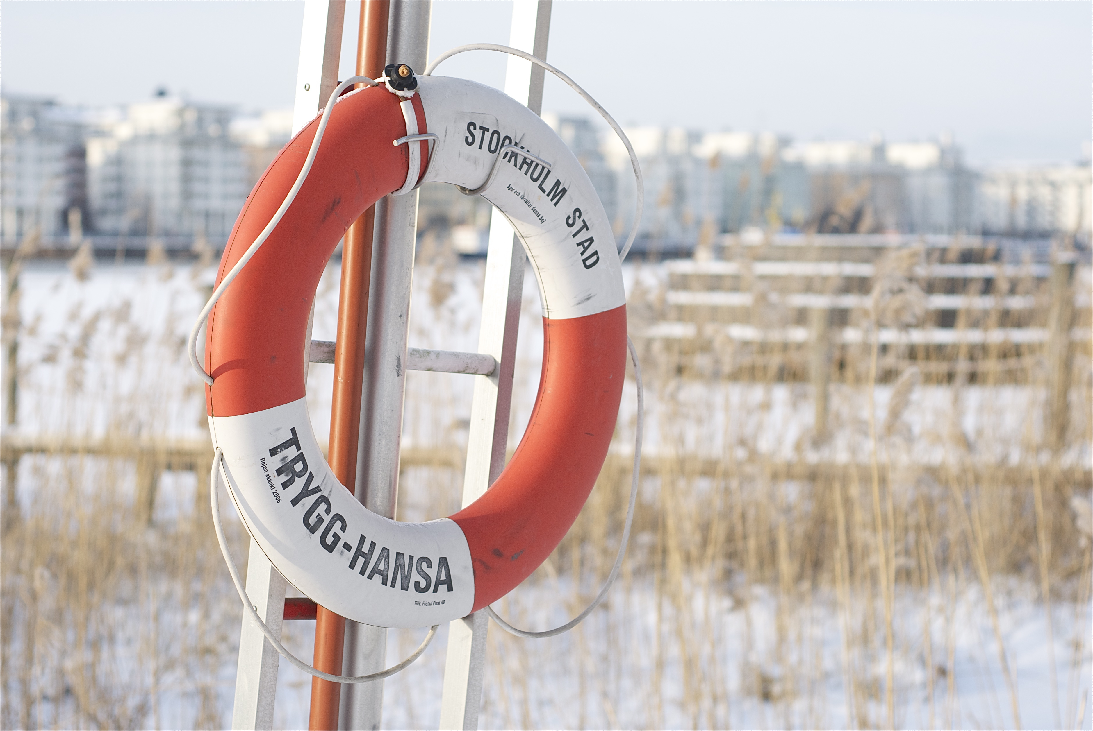 Lifebuoy in Södra Hammarbyhamnen, Stockholm.